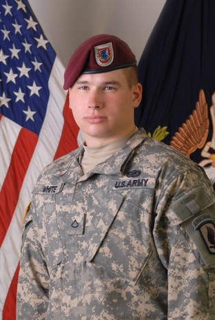 Kyle J. White's pre-deployment photo taken in mid-2007.